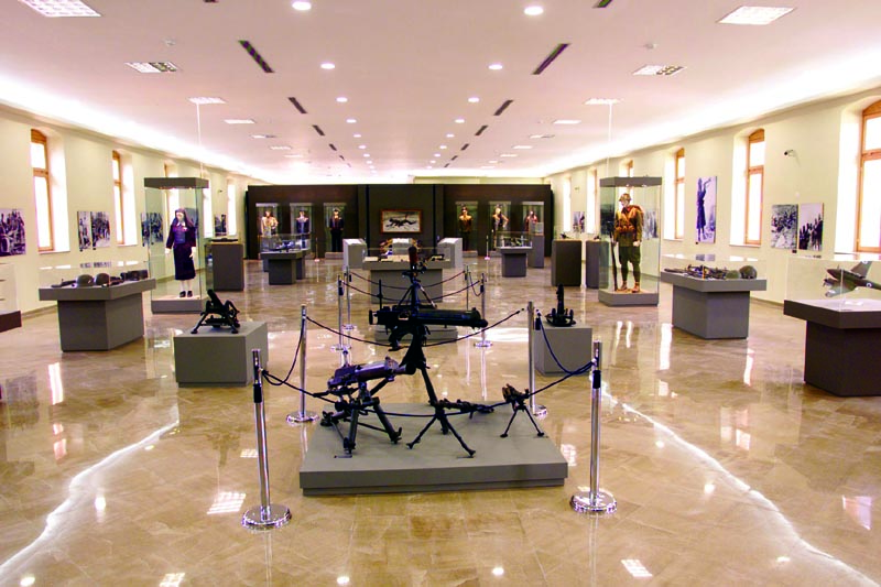 Miscellaneouss artifacts, image from the War Museum, Thessaloniki, Central Macedonia, Greece